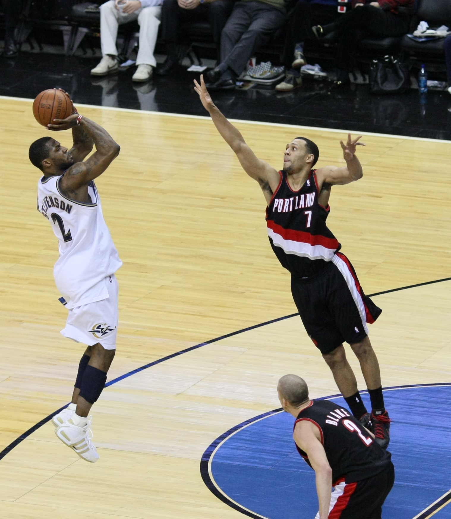 Brandon Roy defending DeShawn Stevenson